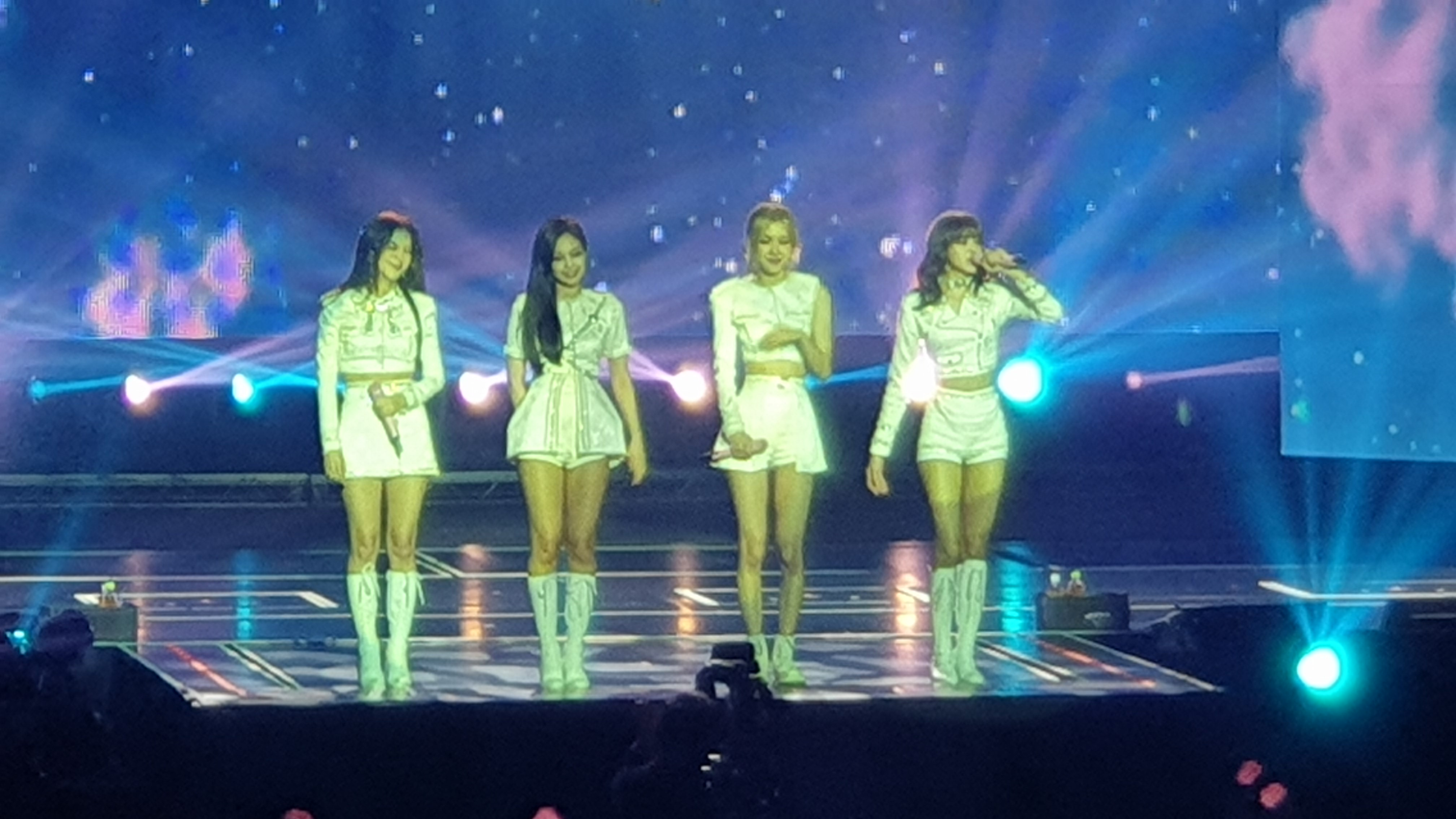 Blackpink Amsterdam concert 2019 WORLD TOUR with KIA [IN YOUR AREA]